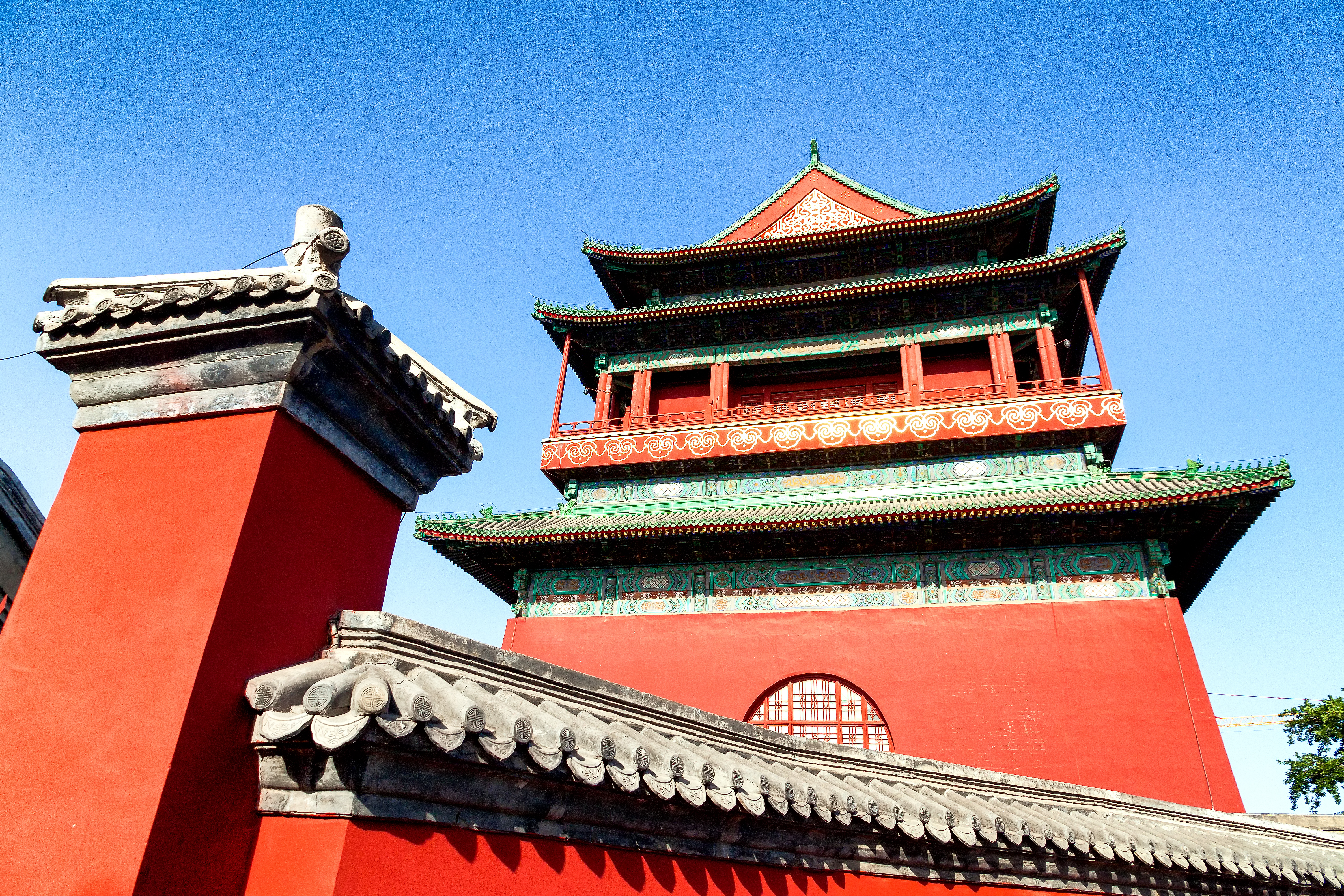 The Drum Tower in Beijing, photo by Chen Yihan